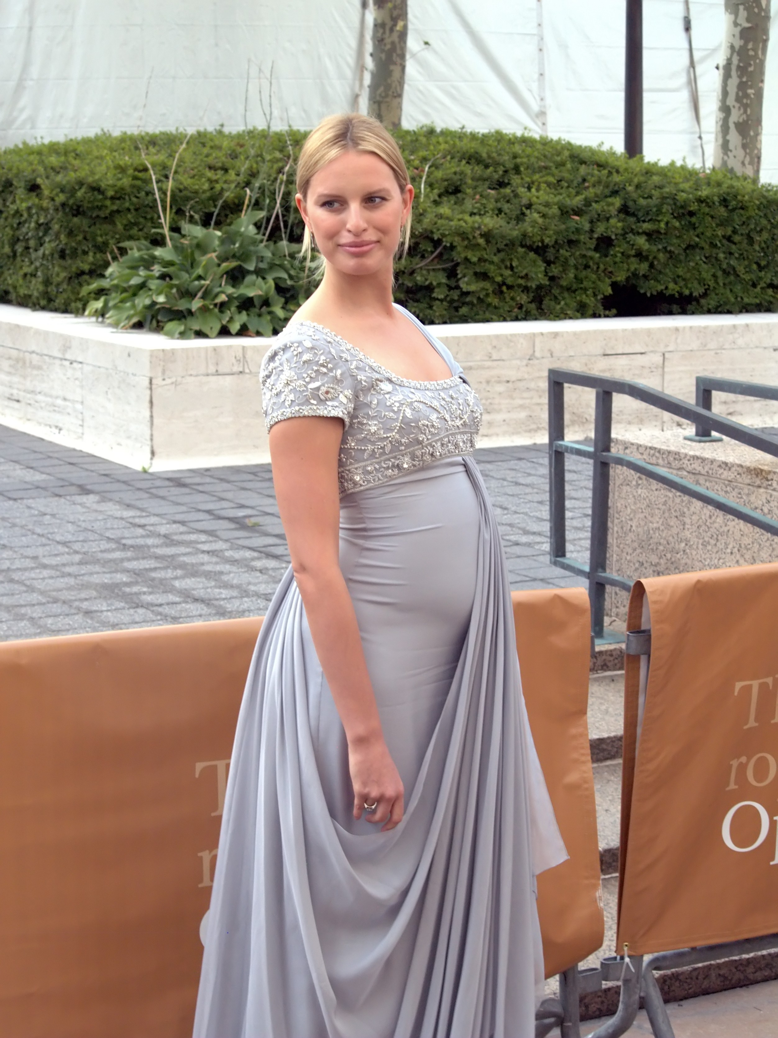 Karolína Kurková at the 2009 premiere of the Metropolitan Opera in New York City. Photographer's blog post about event and photograph.